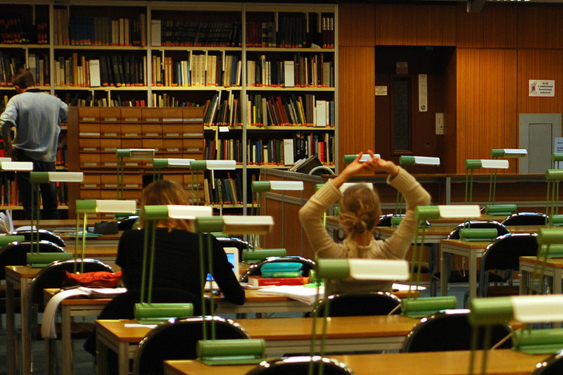 Reading room